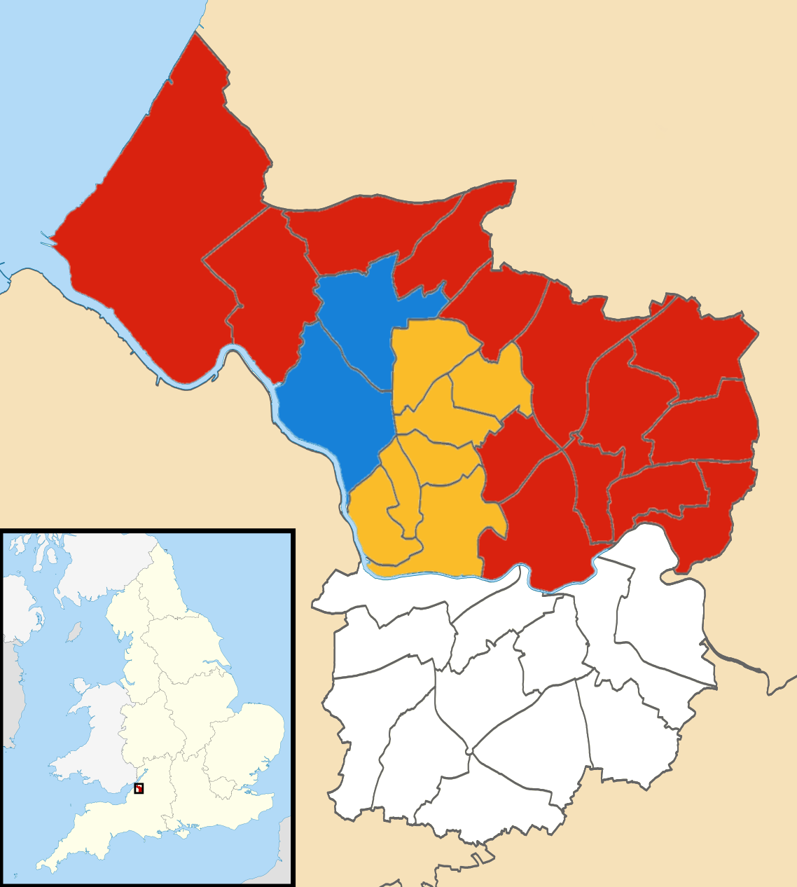 Results of the 2001 local elections in Bristol Colours: Conservative Labour Liberal Democrat No election in 2001